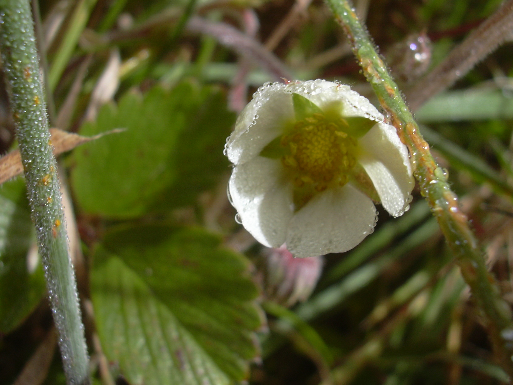 Fragaria chiloensis subsp. sandwicensis (flower). Location: Maui, Waikau, Haleakala National Park